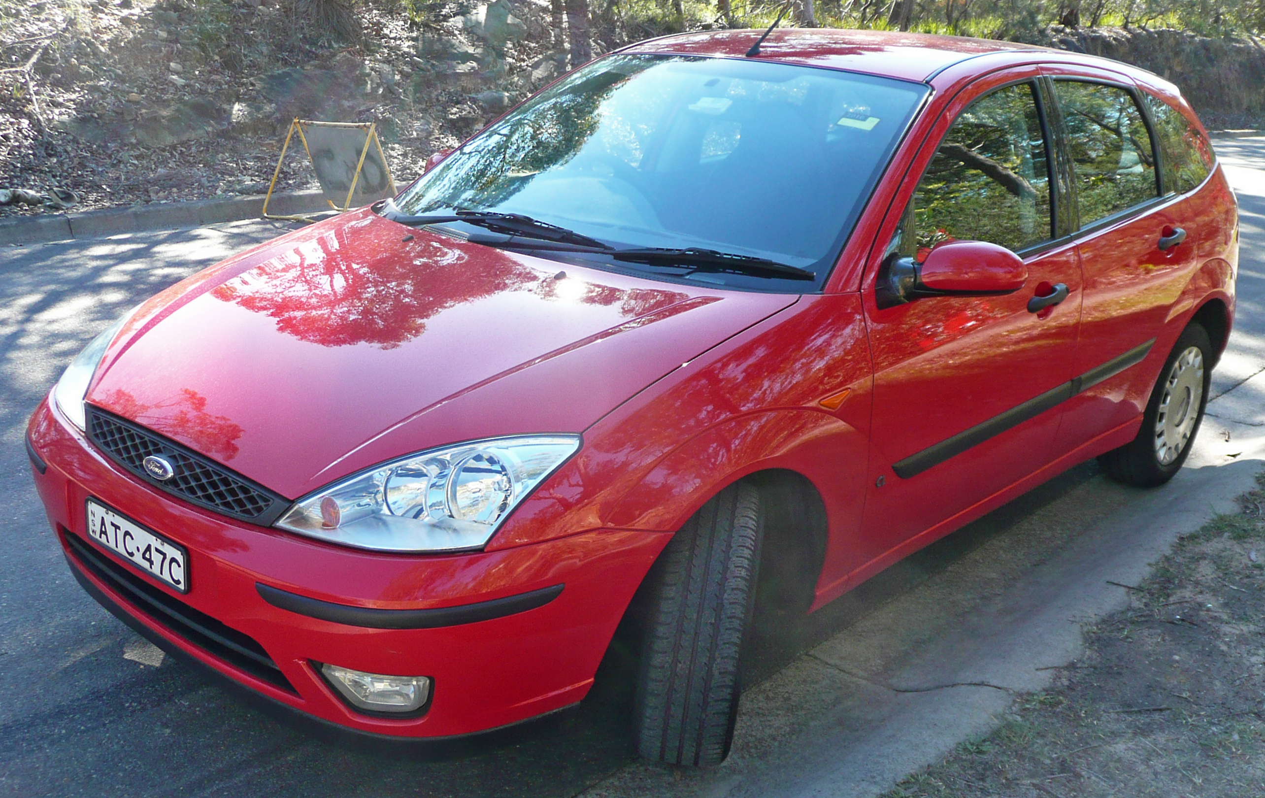 2003 Ford Focus (LR MY03) CL 5-door hatchback. Photographed in New South Wales, Australia.